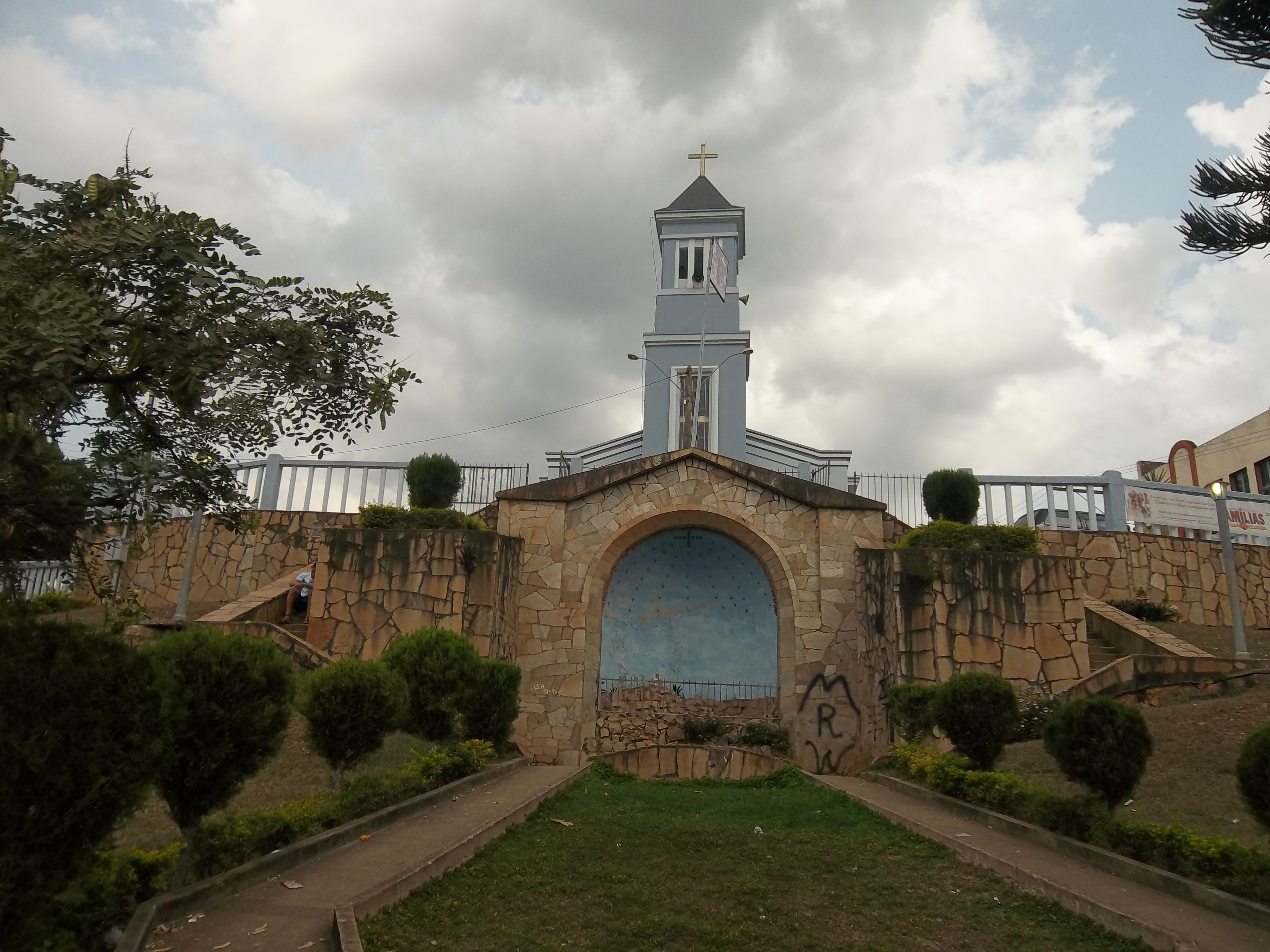 Gruta de Nossa Senhora da Graça e ao fundo, Torre da Igreja Matriz